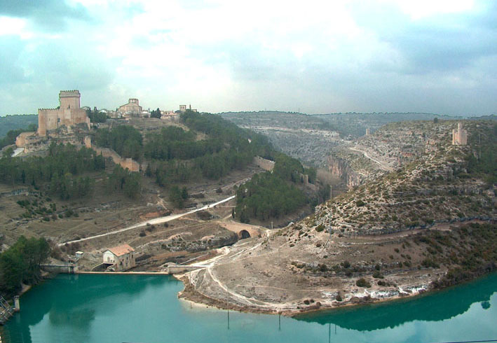 general view of Alarcon